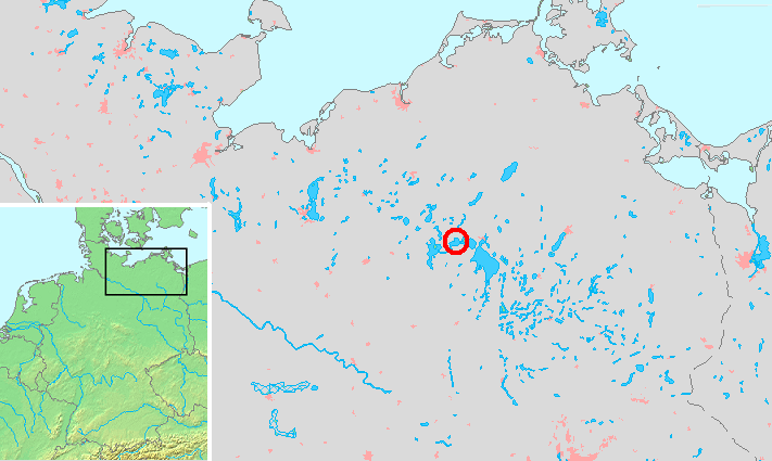 Locator maps of lakes in Germany : Location Fleesensee.PNG